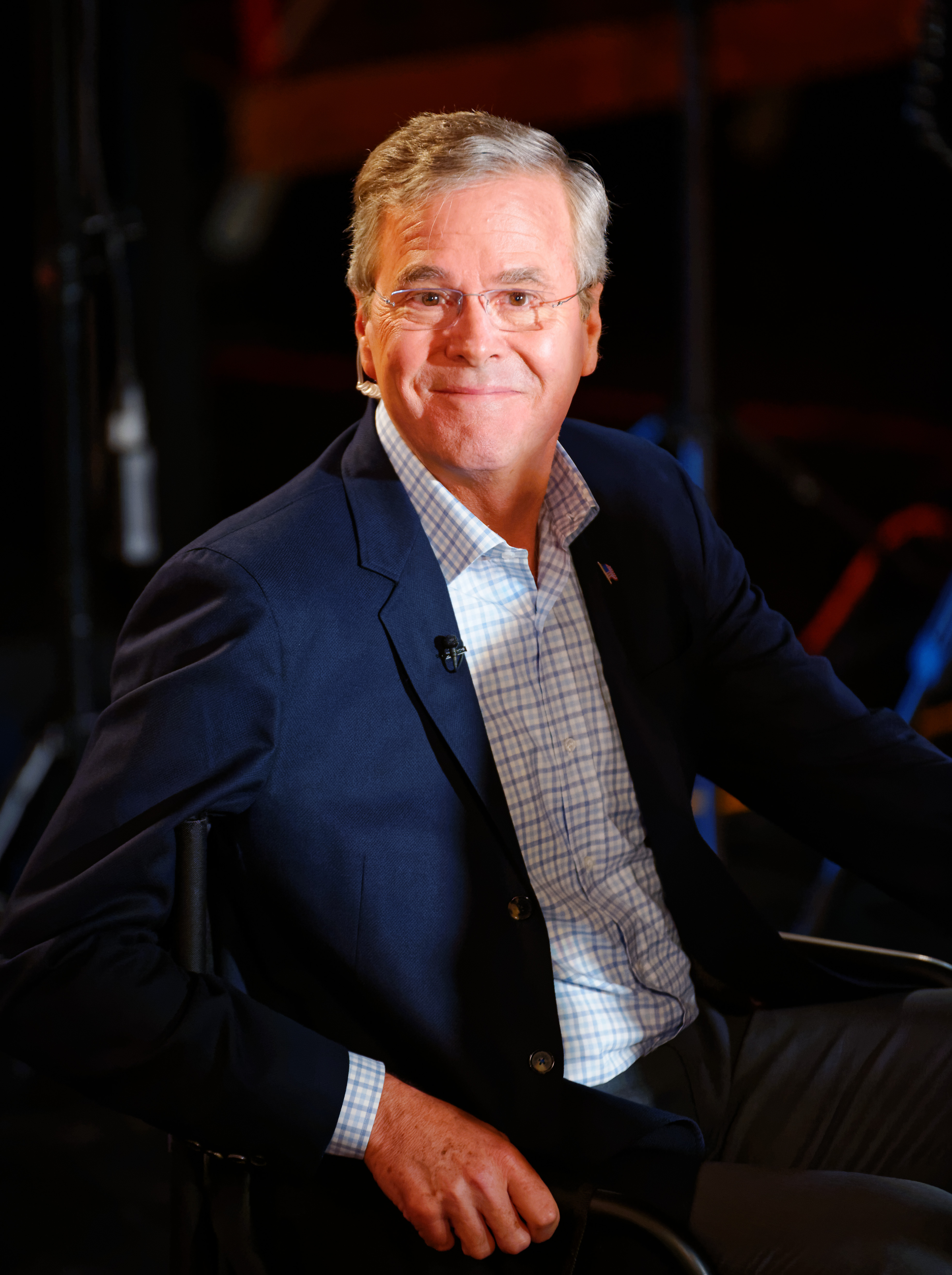 JebBush #JebBush2016 #JebBushForPresident #Jeb #Jeb2016 #JebForPresident Newly declared Republican presidential candidate Jeb Bush says he is the presidential candidate that can help the economy grow. The former Florida governor is speaking at a town-hall event in the key Republican primary state of New Hampshire a day after announcing his candidacy for the 2016 race. Bush began the event at the Adams Memorial Opera House on Tuesday with his back turned to the audience for an interview with television and radio host Sean Hannity. Bush repeatedly criticized Democratic front-runner Hillary Rodham Clinton, calling her a formidable candidate but questioning her accomplishments. He also emphasized Washington's dysfunction and spoke of his goal of 4 percent annual growth for the economy. Adams Memorial Opera Address: 29 W Broadway, Derry, NH 03038 Phone:(603) 437-0505